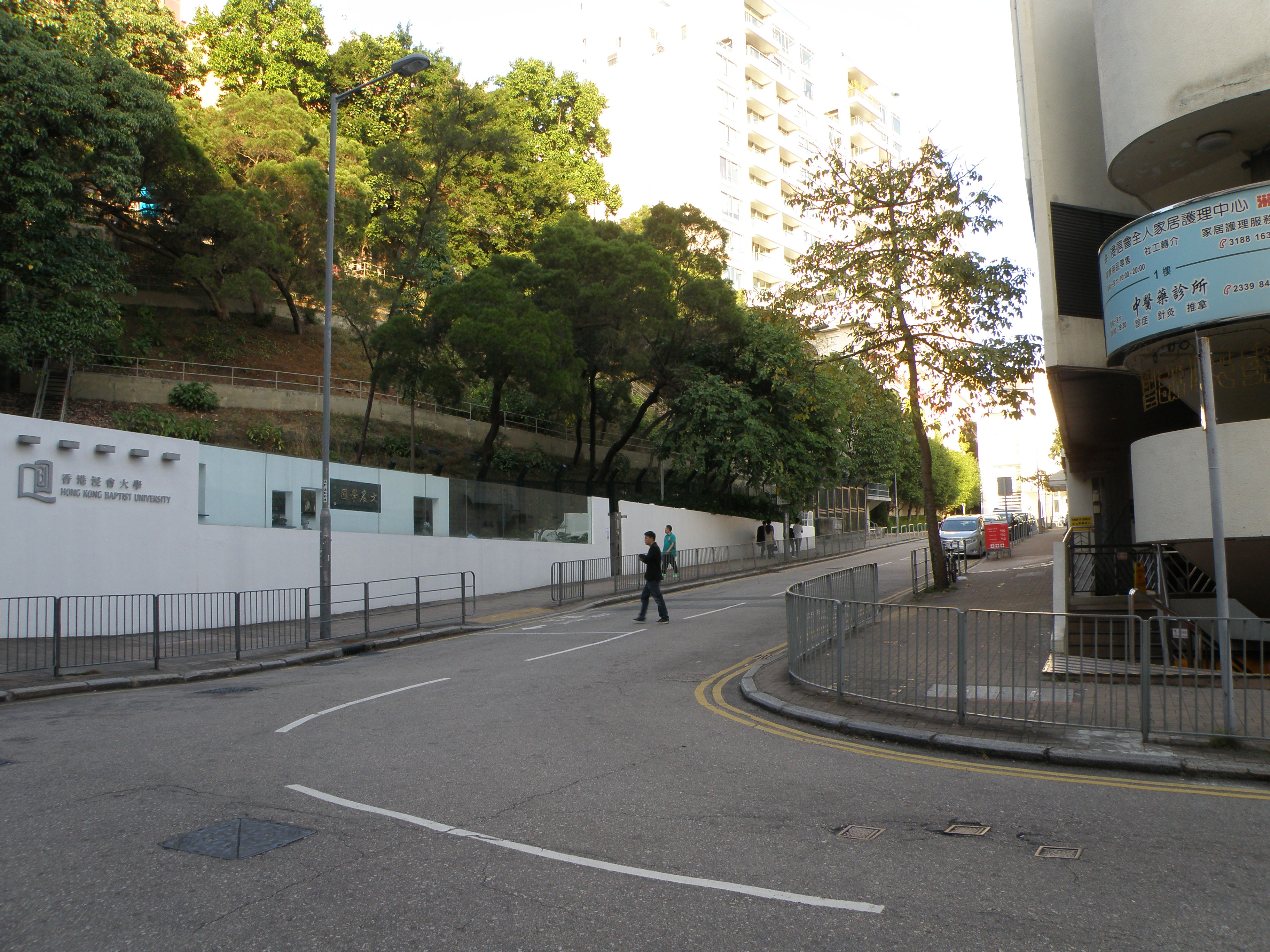 Kam Shing Road in Kowloon Tong, Hong Kong.